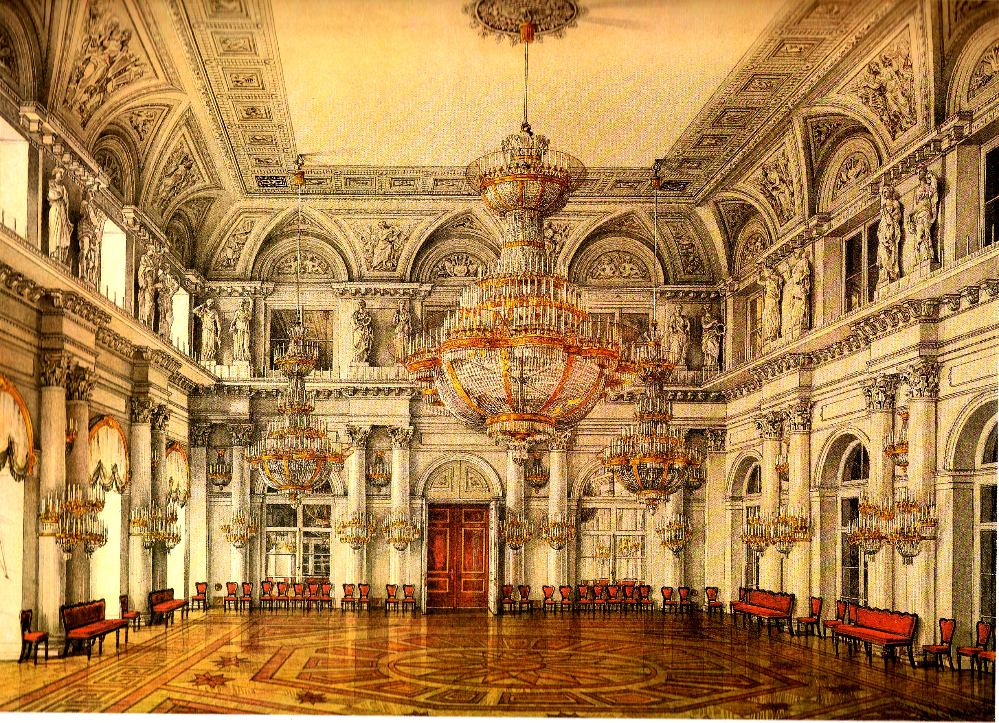 Interiors of the Winter Palace. Concerthall